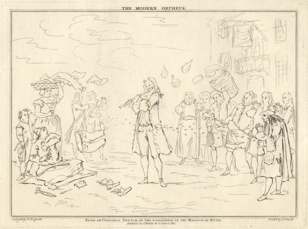 "The Modern Orpheus" From an Original Sketch in the possession of the Marquis of Bute. Etching by D. Smith after the drawing by William Hogarth (1697-1764) depicting Charles Frederick Weideman playing his flute in the open air to a group of onlookers including George II and Sir R. Walpole.